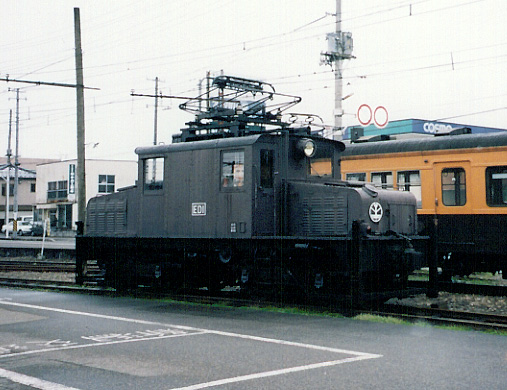 Type ED1 of Kambara railway.